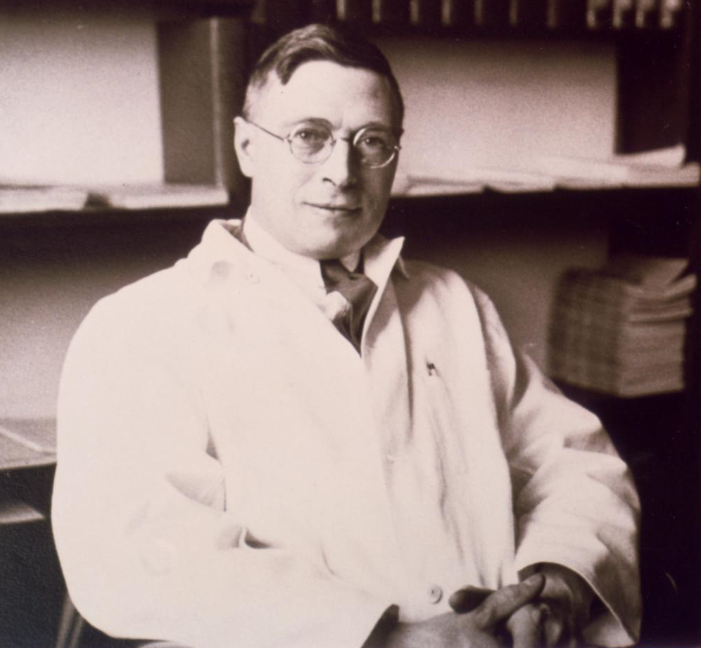 J. B. Collip